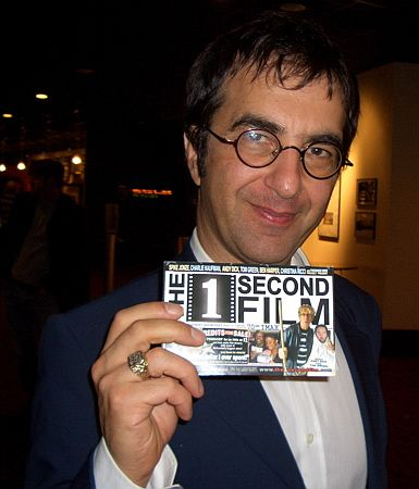 Atom Egoyan holding a producer credit for The 1 Second Film